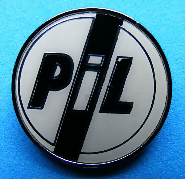 PiL Button + Logo, [foto by paul b. toman]